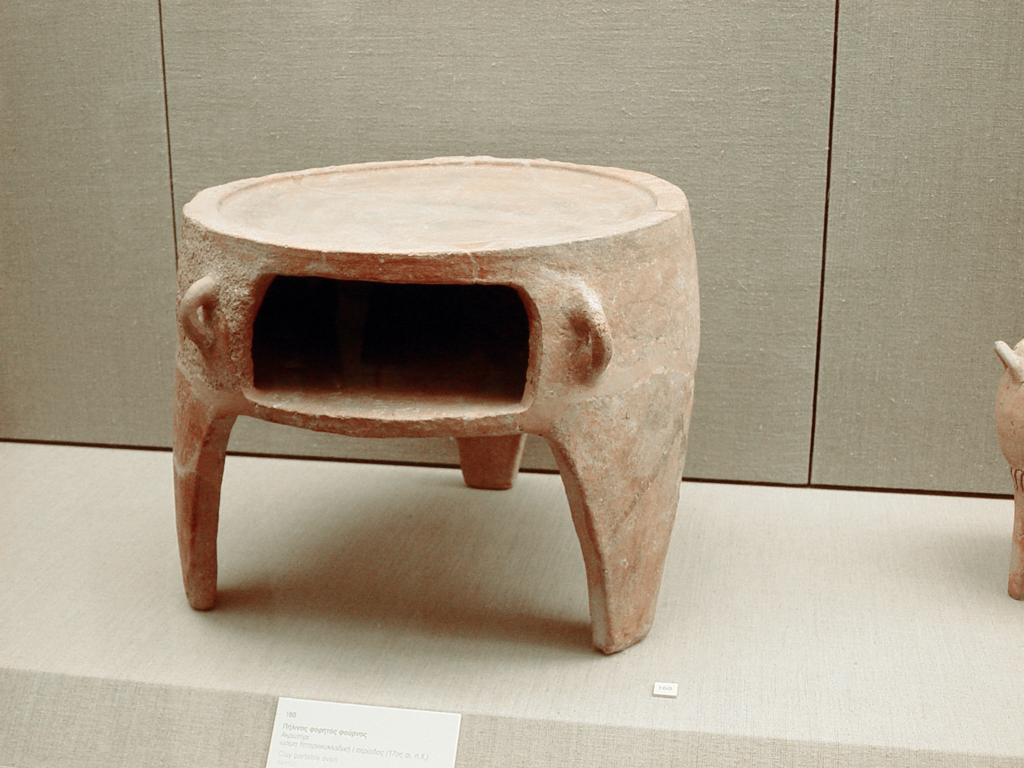 Utilitarian terracotta object, Museum of Cycladic Culture, Akrotiri excavation artifacts, Santorini, Cyclides, Hellas (Greece). LC I, 17th century BC.